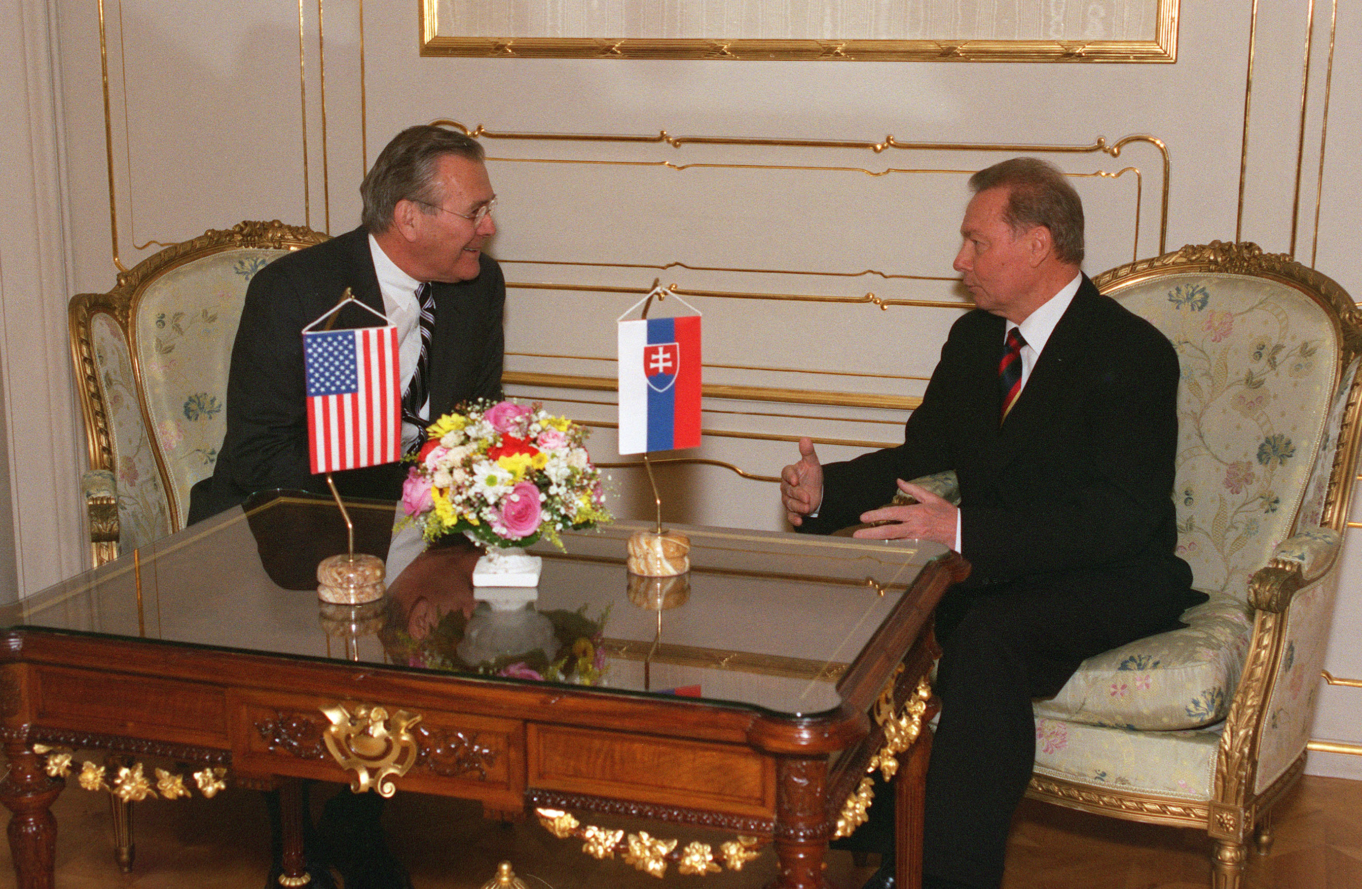 Secretary of Defense Donald H. Rumsfeld (left) meets with President of the Slovak Republic Rudolf Schuster (right) at the Presidential Palace in Bratislava on Nov. 22, 2002. Rumsfeld flew to Bratislava following the NATO Summit in Prague, Czech Republic, to offer his congratulations to President Schuster and other senior government officials for Slovakia's invitation to join NATO.